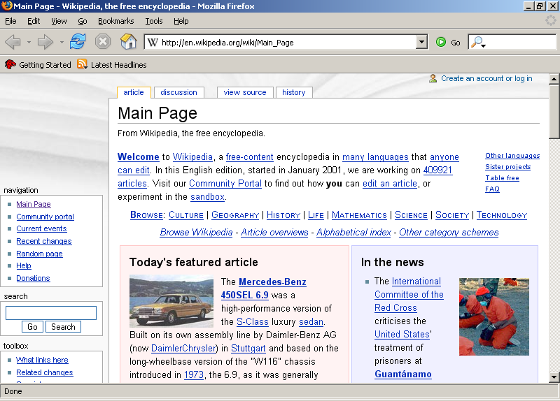 Mozilla Firefox 1.0 in its default state showing Wikipedia's Main Page, à la Wikipedia:Software_screenshots.